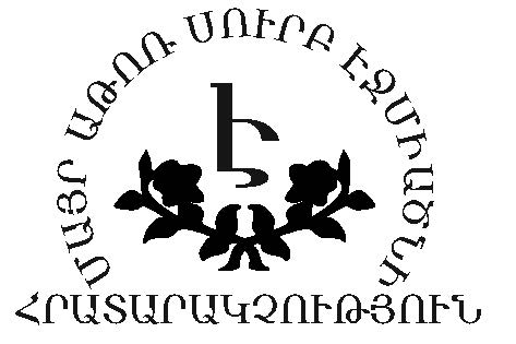 ՄԱՅՐ ԱԹՈՌ ՍՈՒՐԲ ԷՋՄԻԱԾՆԻ ՀՐԱՏԱՐԱԿՉԱԿԱՆ ԲԱԺԻՆ